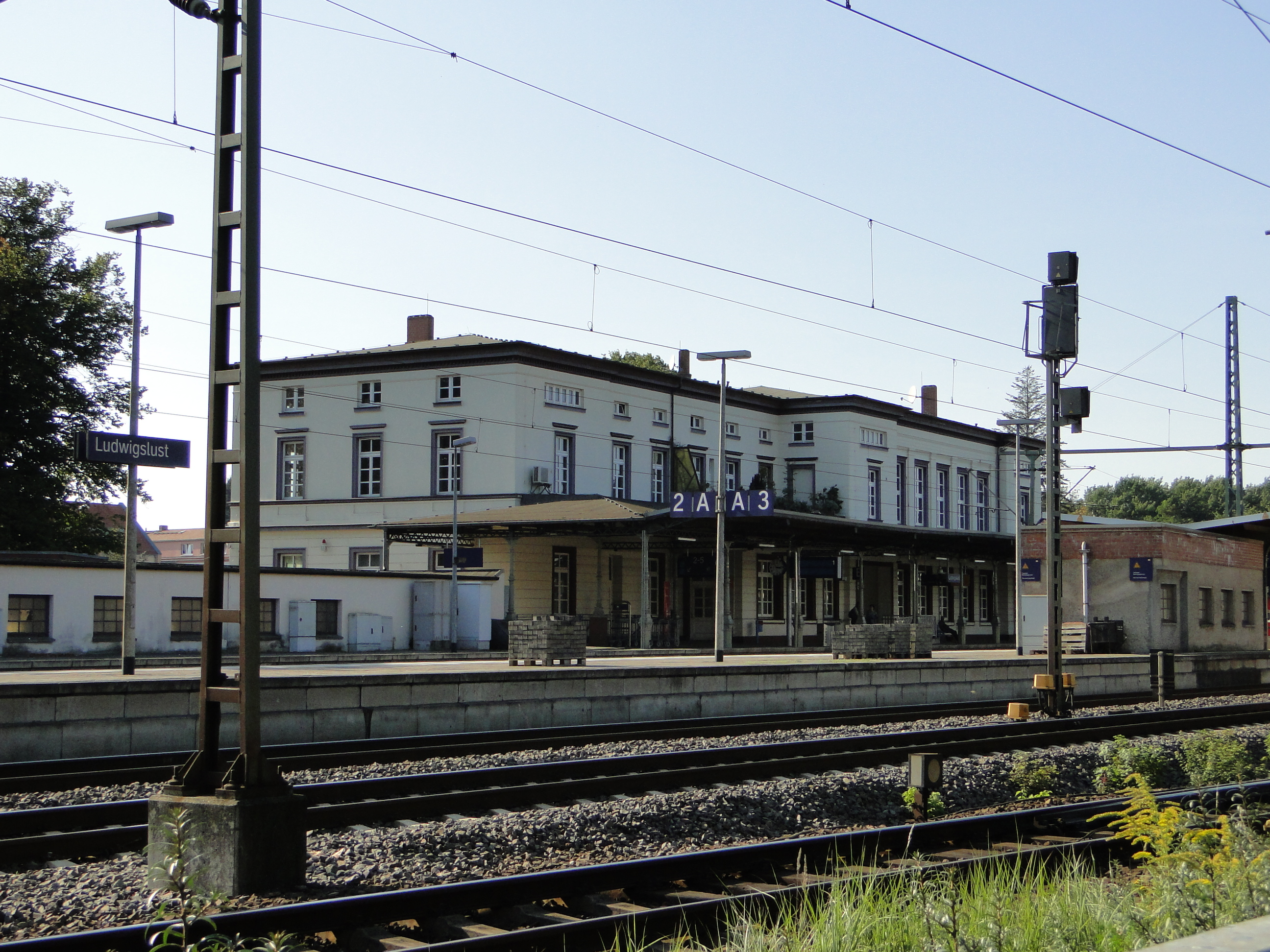 Train station in Ludwigslust, district Ludwigslust-Parchim, Mecklenburg-Vorpommern, Germany